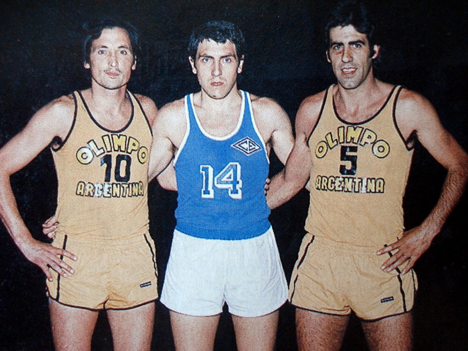 Alberto "Beto" Cabrera (center) with Olimpo players Atilio Fruet (left) and José Delizaso. It was during the last game of Fruet in Bahía Blanca, Olimpo (52) v Estudiantes (50).